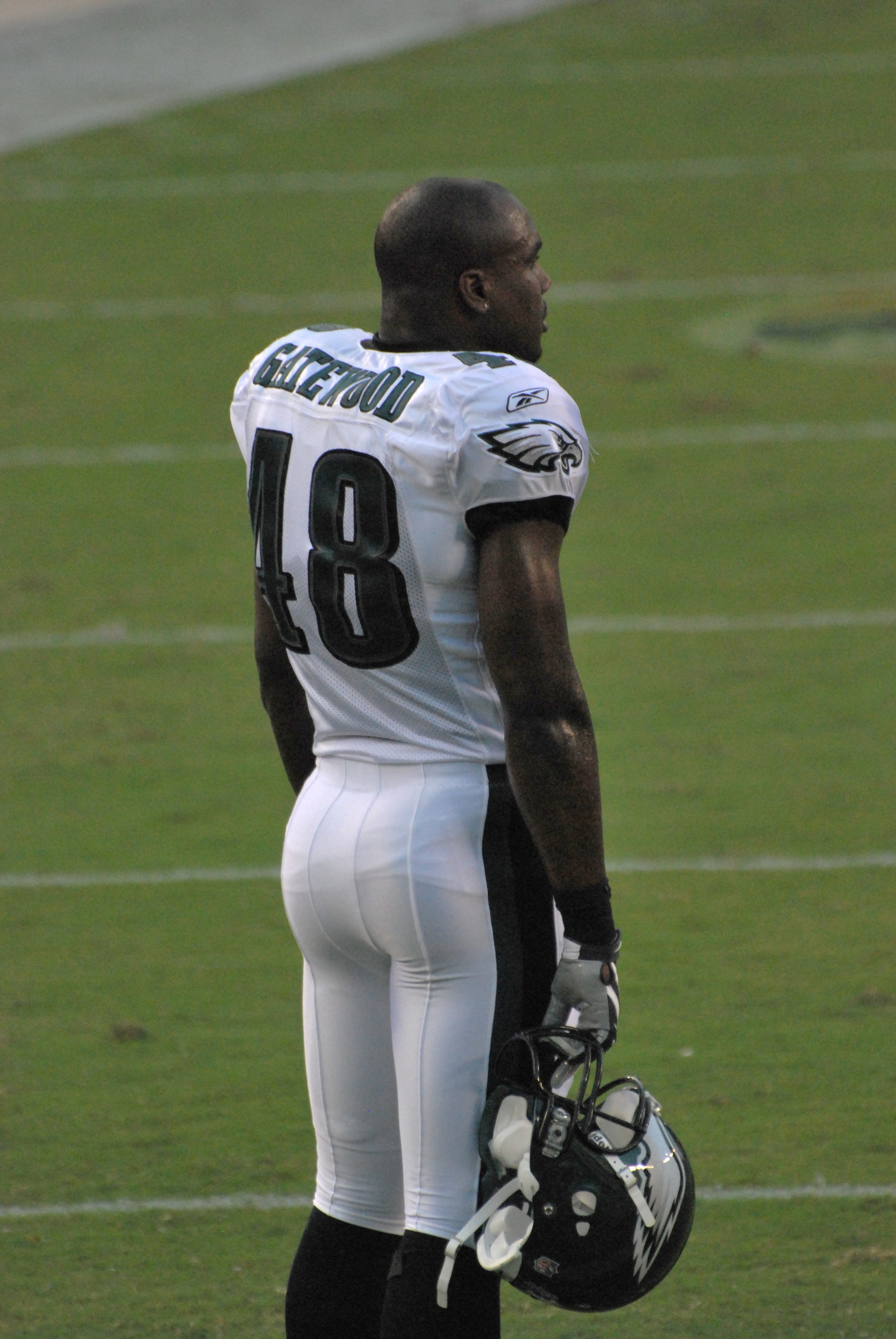 Curtis Gatewood in August 2009